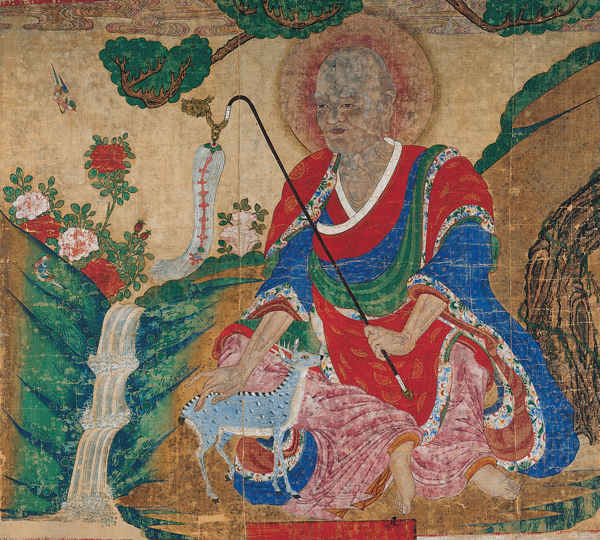 Arhat and Deer, late 17th century, Korea, Choson period, Yi dynasty, ink, mineral pigments, and gold on silk, Kimbell Art Museum